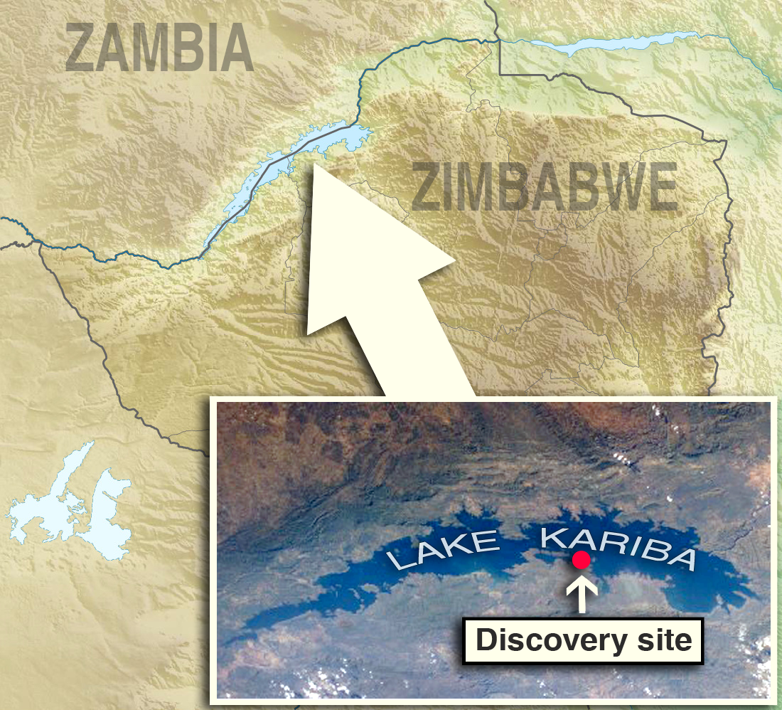 Physical location map of Zimbabwe Equirectangular projection, N/S stretching 105 %. Geographic limits of the map: * N: 15.2° S * S: 22.8° S * W: 24.8° E * E: 33.6° E